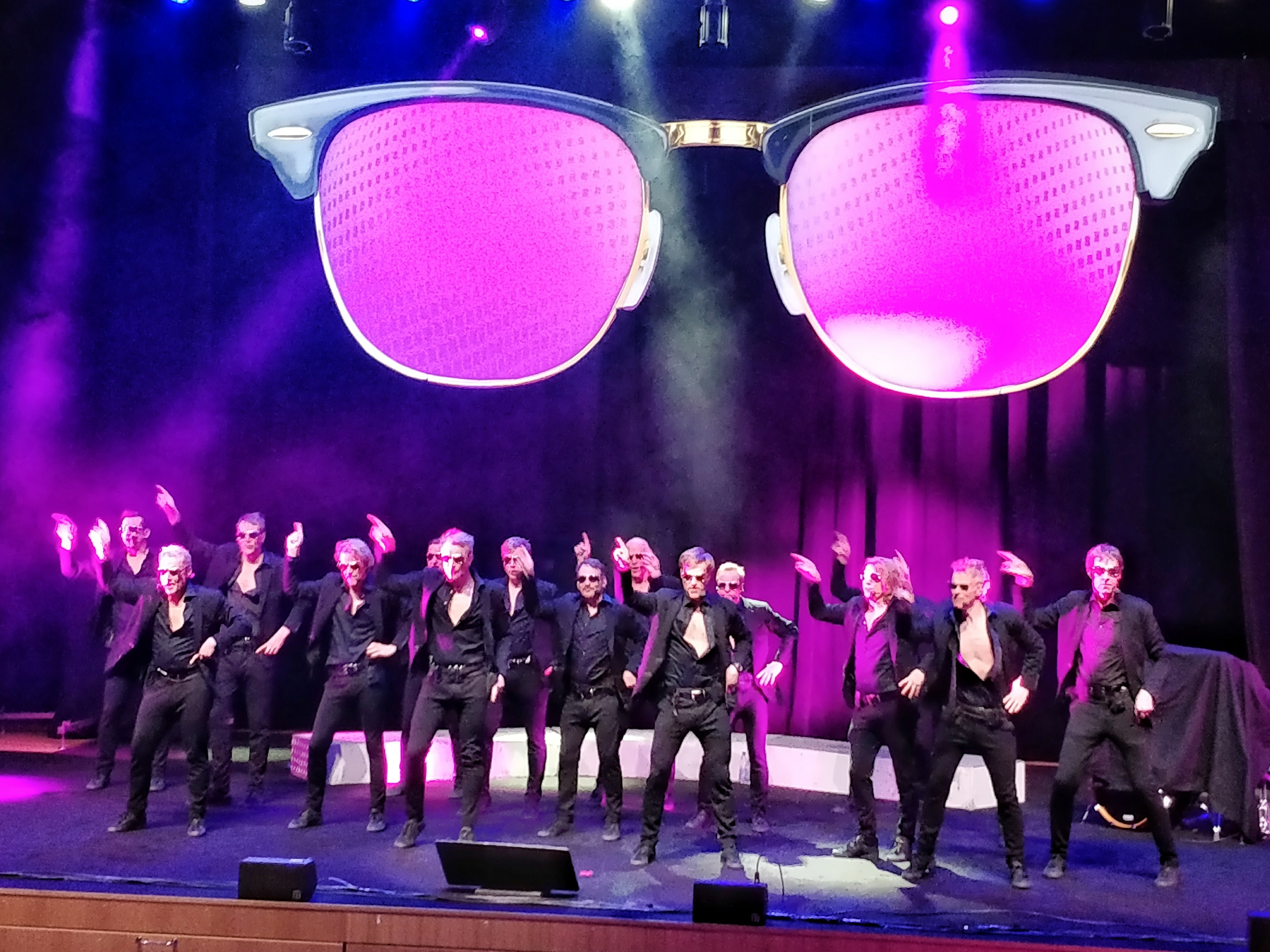 Seminaarimäen mieslaulajat (Semmarit) performing at the Klaukkala Monikkosali in 2018.